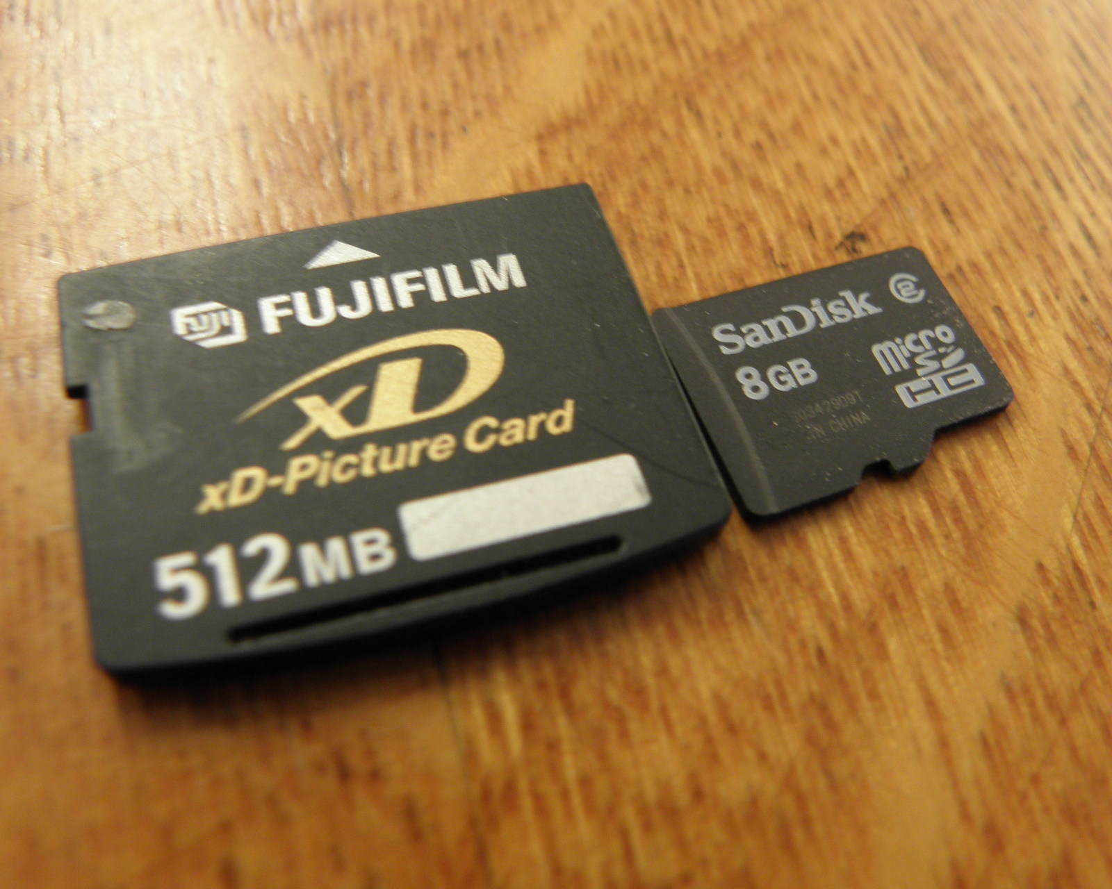 A Size comparison of a MicroSD card with an XD Picture Card